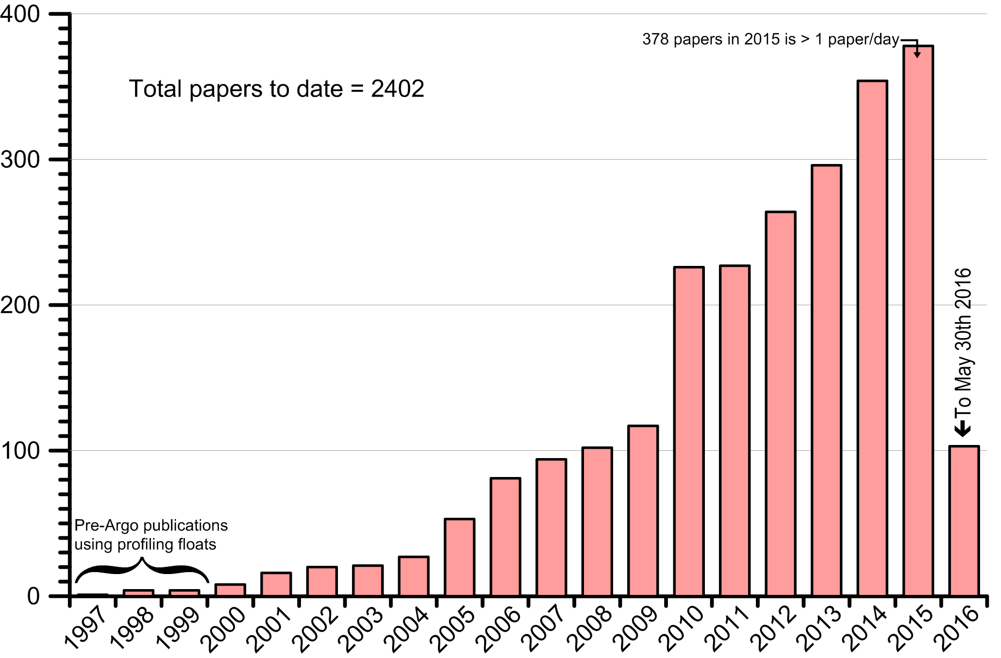 The number of papers, by year, published in refereed journals and that are extensively or totally dependent on the availability of Argo data as of 30th May 2016.